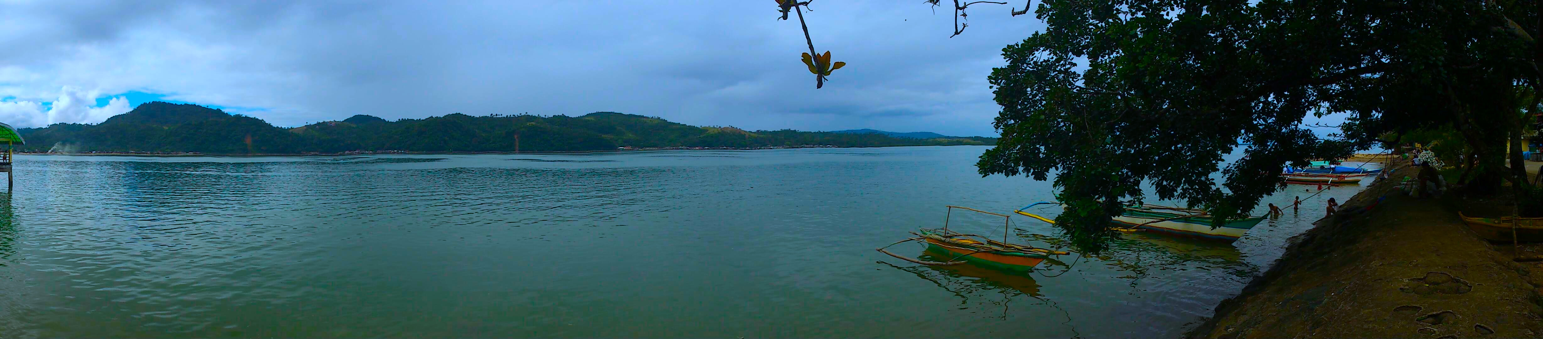 Panorama view of Mambulao Bay